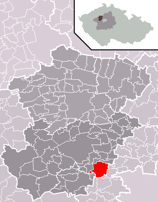 Location of Hostouň municipality within Kladno District and administrative area of Kladno as a Municipality with Extended Competence.